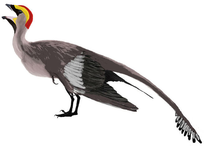 Illustration of the basal avialan bird Shenzhouraptor sinensis (aka Jeholornis prima) by Matt Martyniuk. Graphite and digital. Based upon skeletal reconstructions by Scott Hartman and figures provided in: Zhou, Z.-H., and Zhang, F.-C. (2003). "Jeholornis compared to Archaeopteryx, with a new understanding of the earliest avian evolution." Naturwissenschaften, 90(5): 220-225.